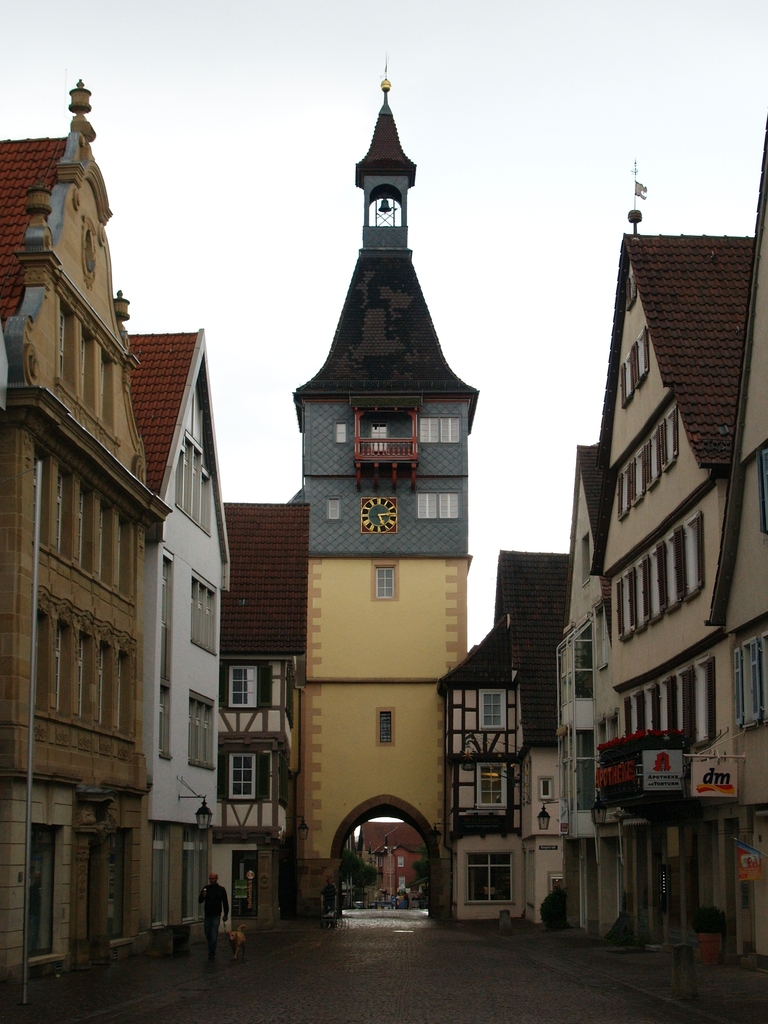 Schwaikheimer Torturm in Winnenden